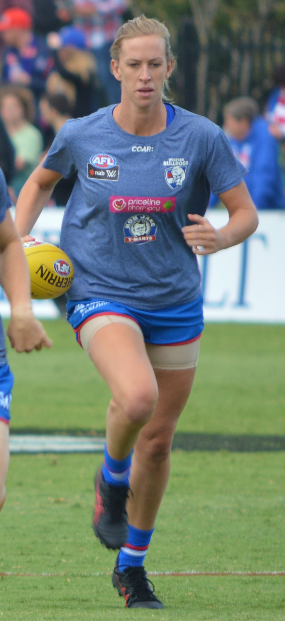 Lauren Spark during the round 3, 2017 AFL Women's match between the Western Bulldogs and Melbourne.